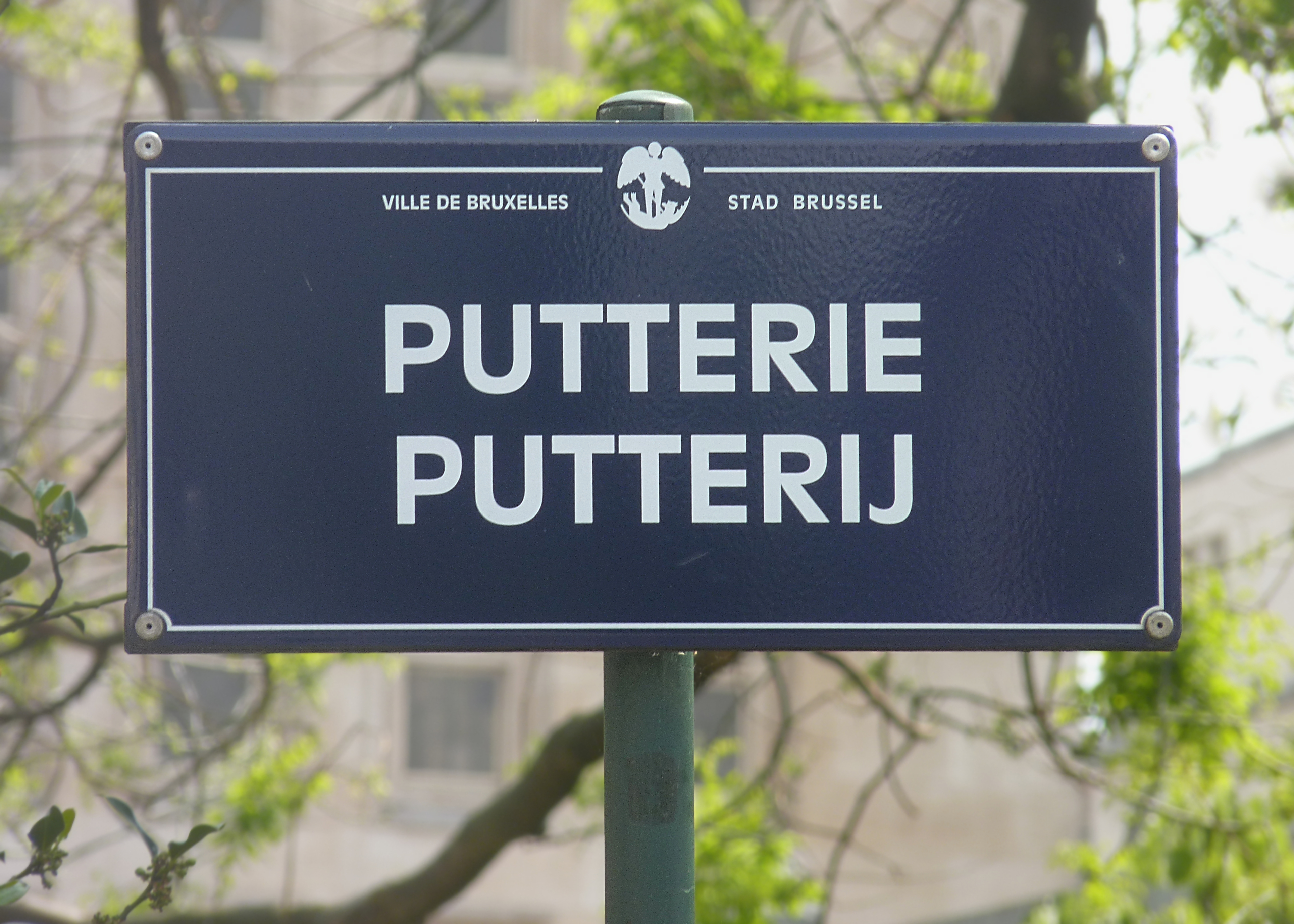 Board indicating the district of de "Putterie" in Brussels, Belgium.